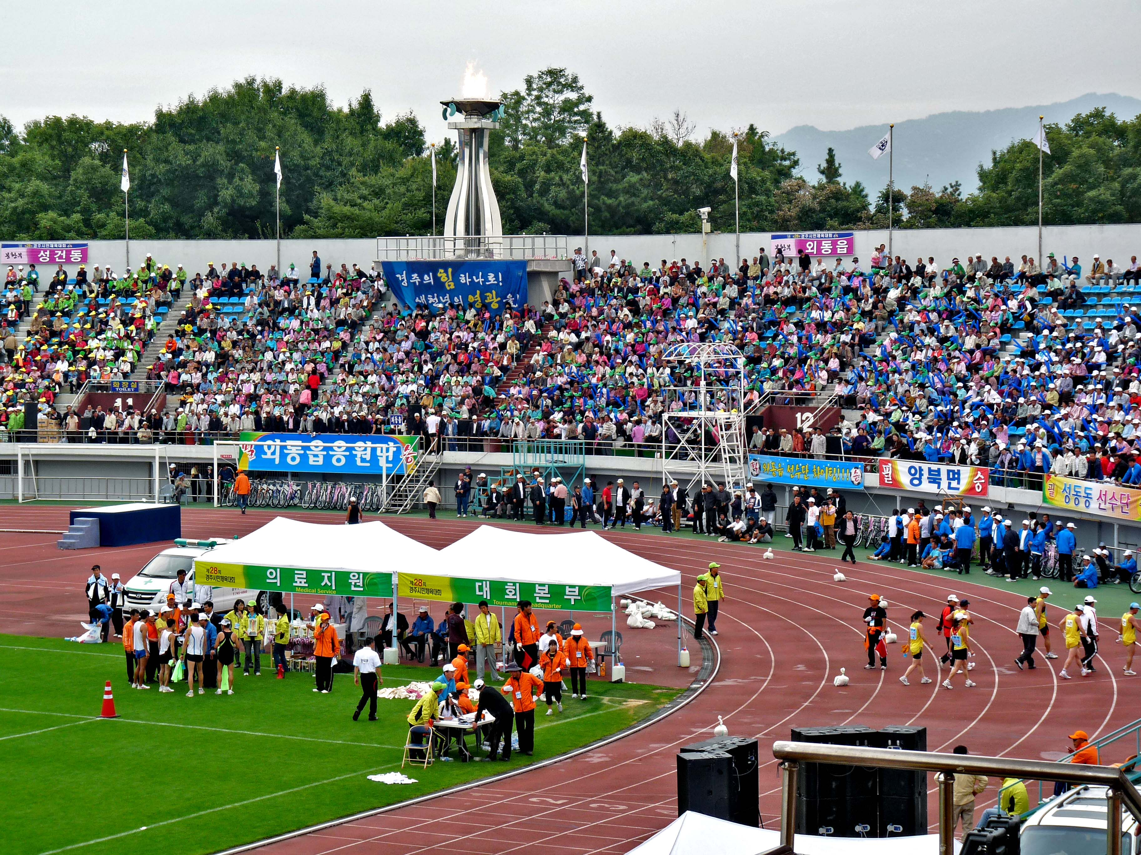 The 28th Gyeongju Citizens' Athletics Festival held in Hwangseong Park, Hwangseong-dong, Gyeongju, North Gyeongsang province, South Korea on October 10, 2008